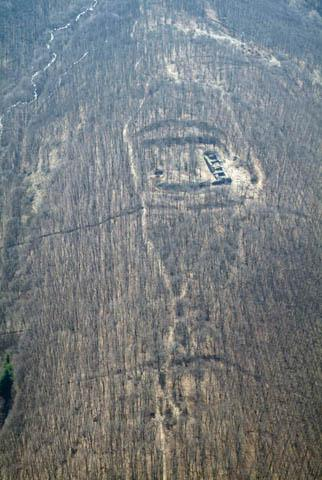 Benevár, Castle, Hungary, aerial archeology